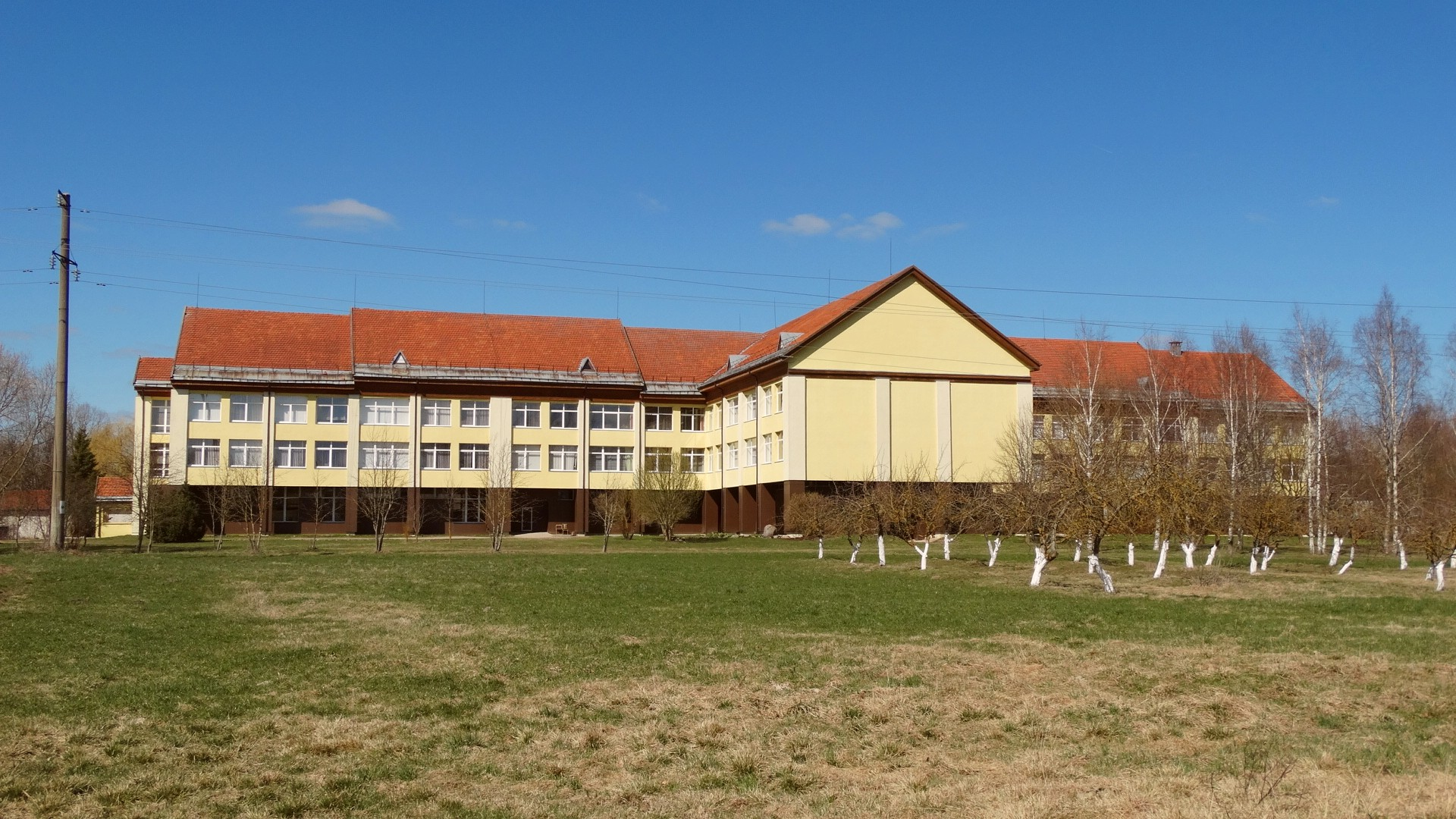 Technology school, Raudondvaris, Radviliškis district, Lithuania